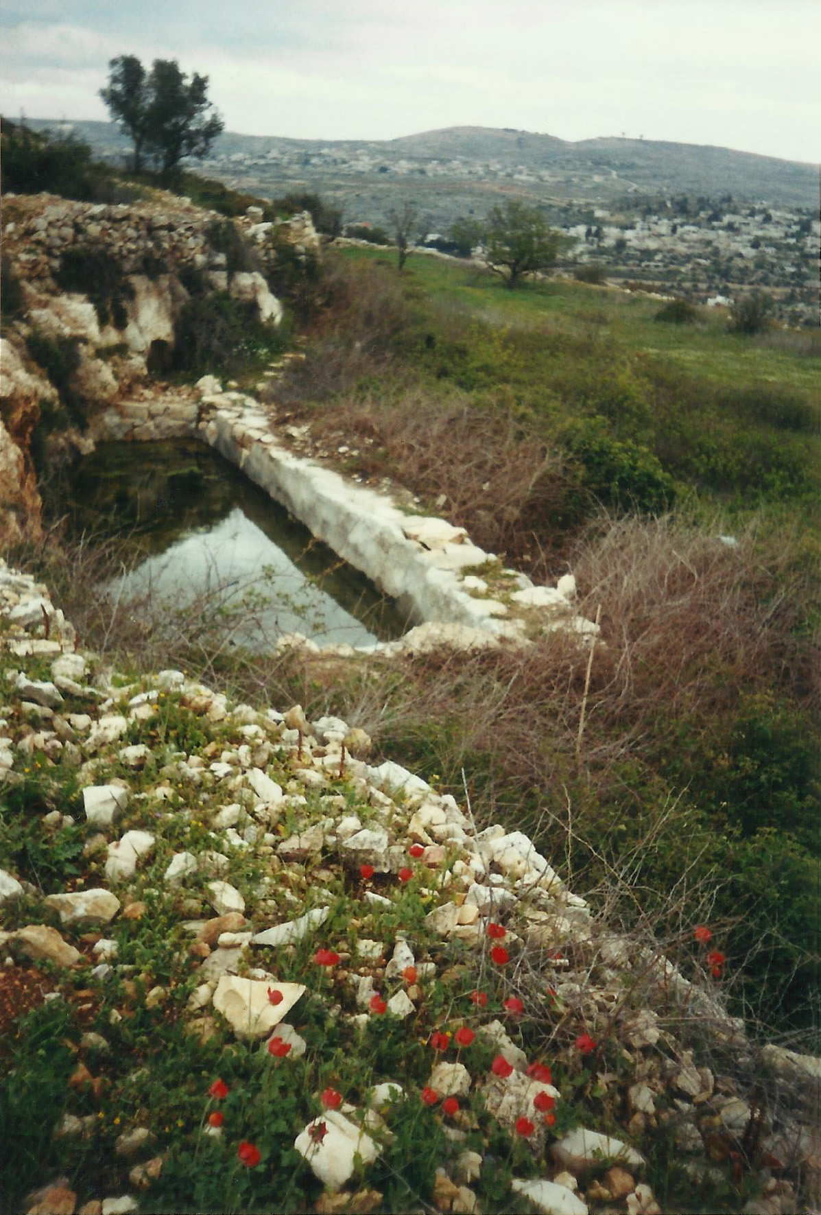 Primordial landscape of Samaria, Palestinian territories, at the shift of winter / spring, with anemones at the foreground, reflected in the waters of a reconstructed pool well-assimilated at the fault-line rawness, and pasturing villages on the soft bible-inspiring hills at far background.